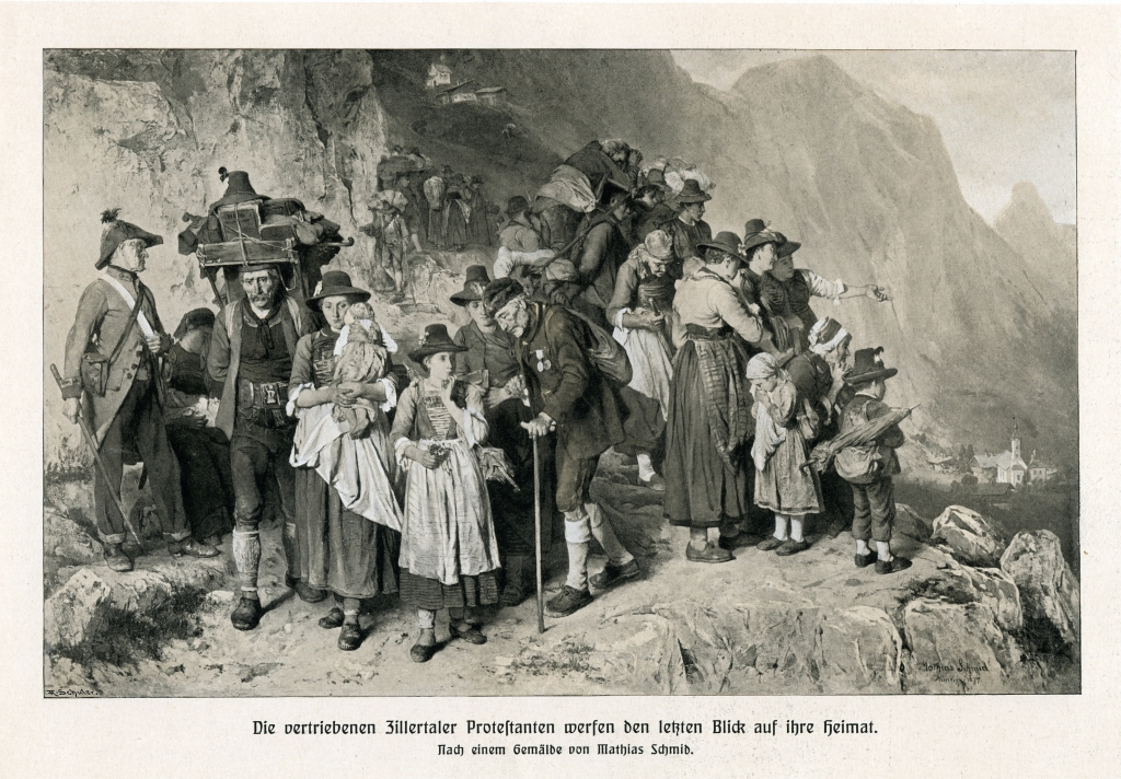 The protestants from the Tyrolian Zillertal who had to leave their home in 1837